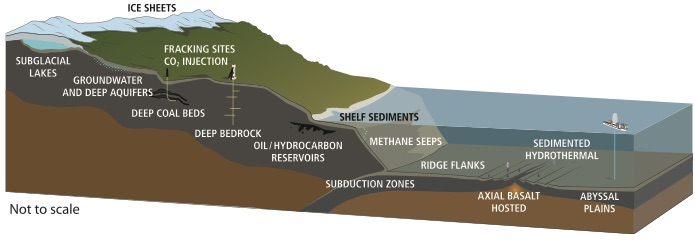 Diagram illustrating the environments in which deep life has been found (not to scale)